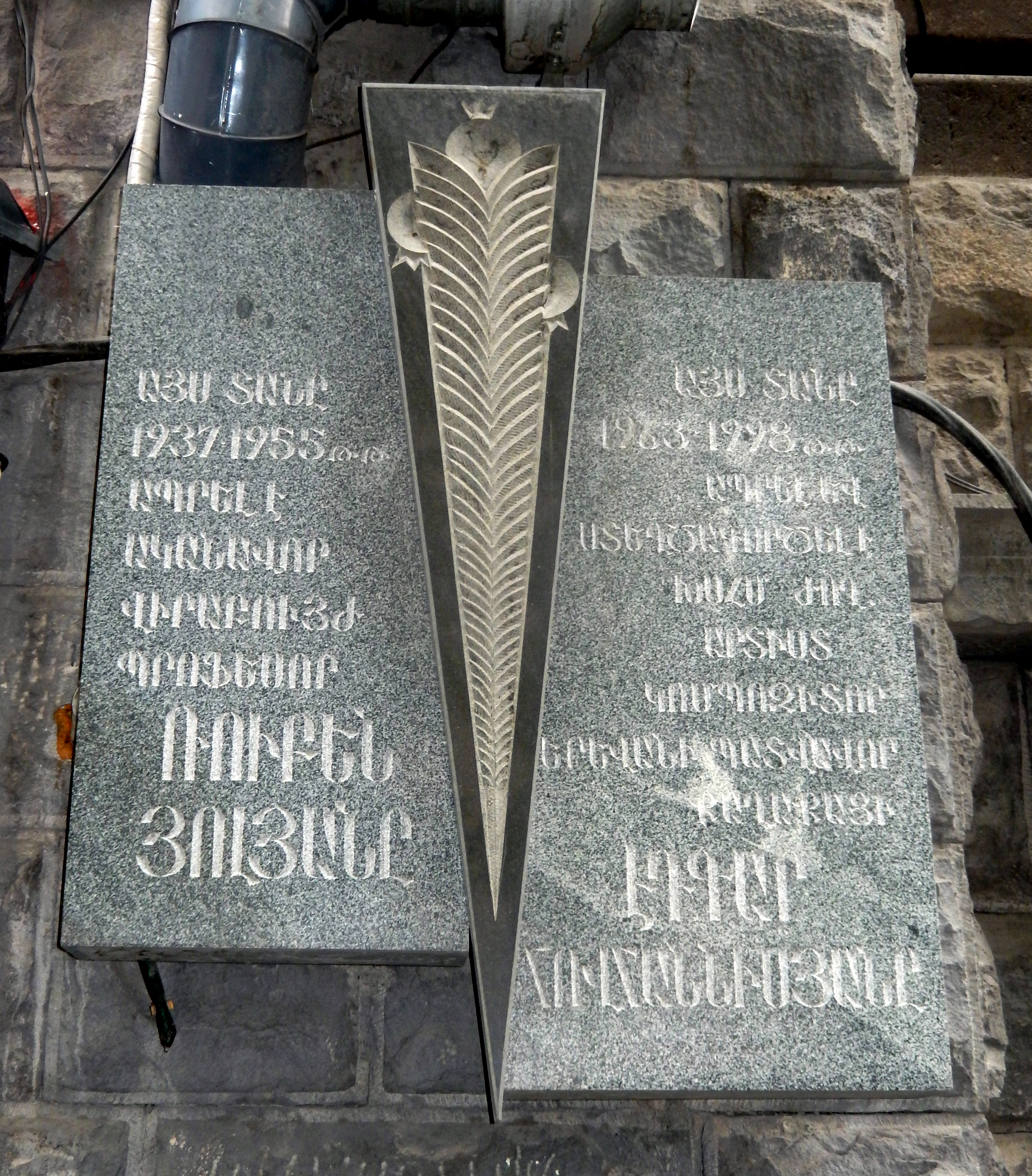 Ruben Yolyan's & Edgar Hovhannisyans plaque in Yerevan